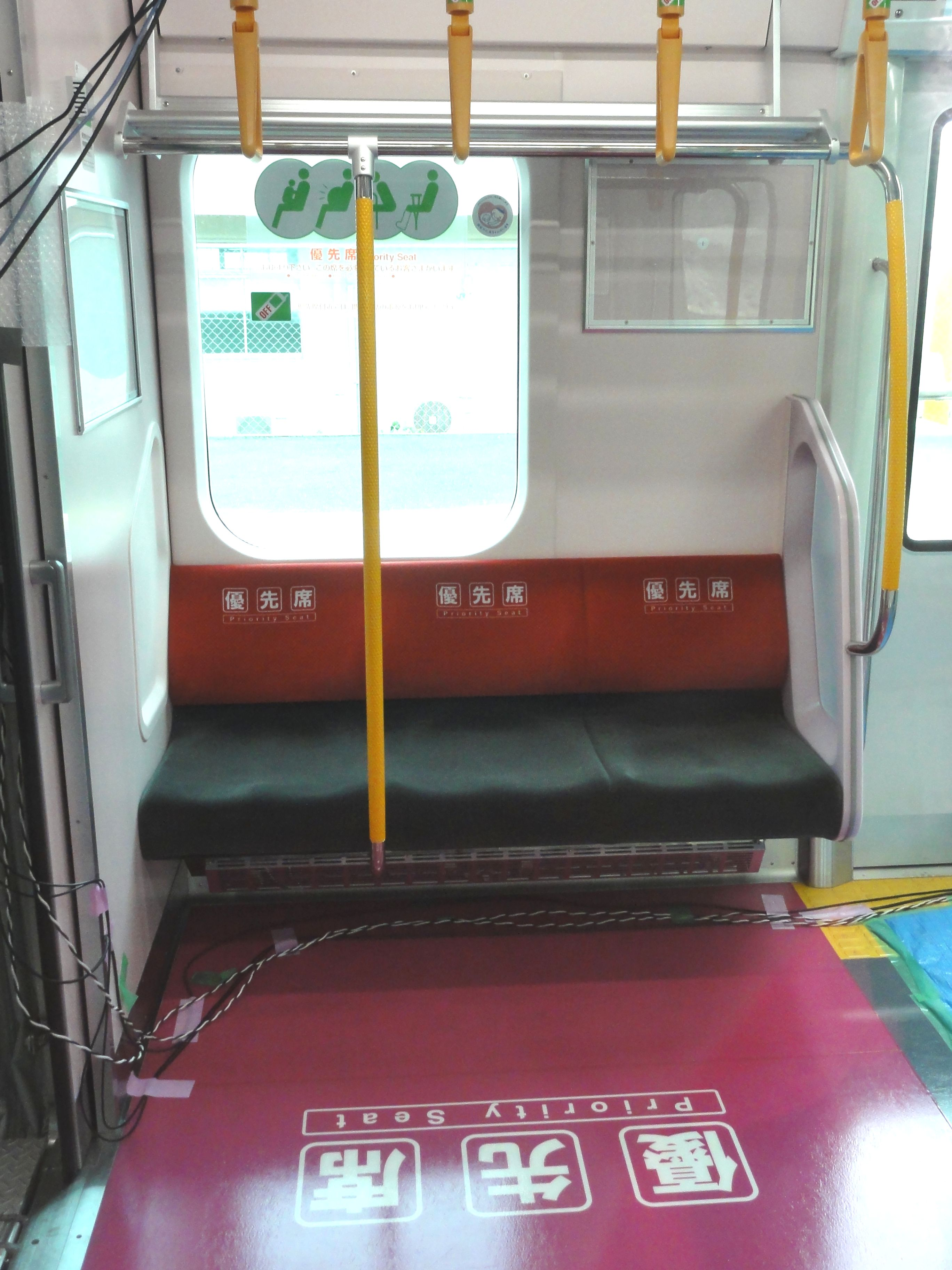 The priority seating area inside JR East E235 series EMU set 01 on a test run